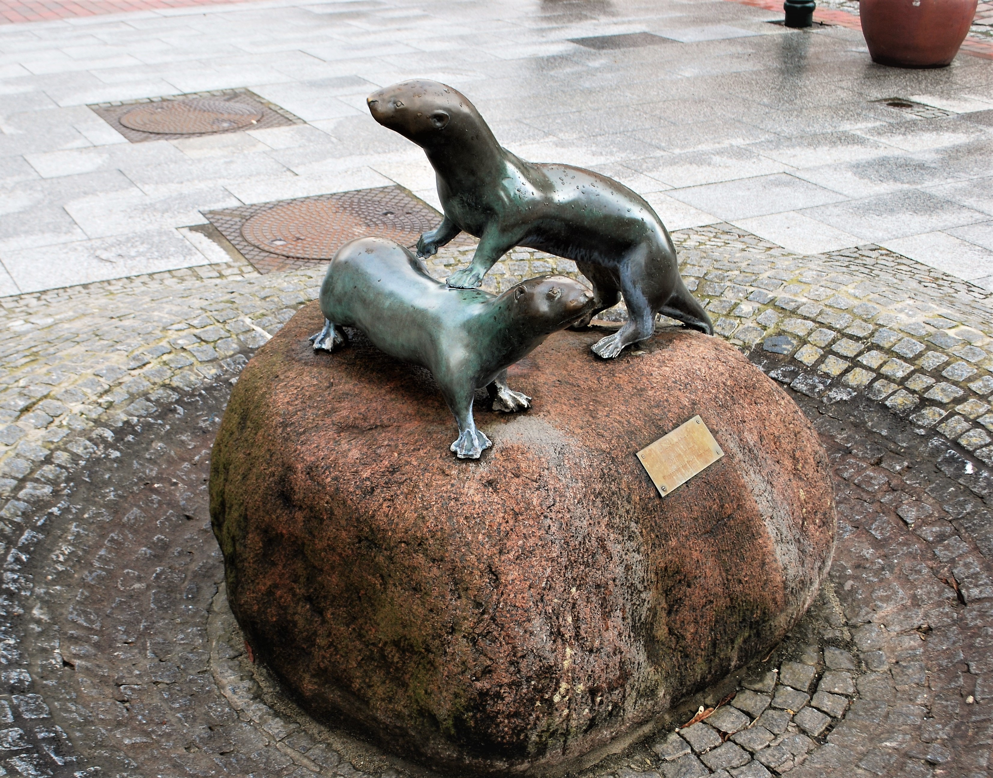 Otterndorf is a town on the coast of the North Sea in the region of Lower Saxony, Germany